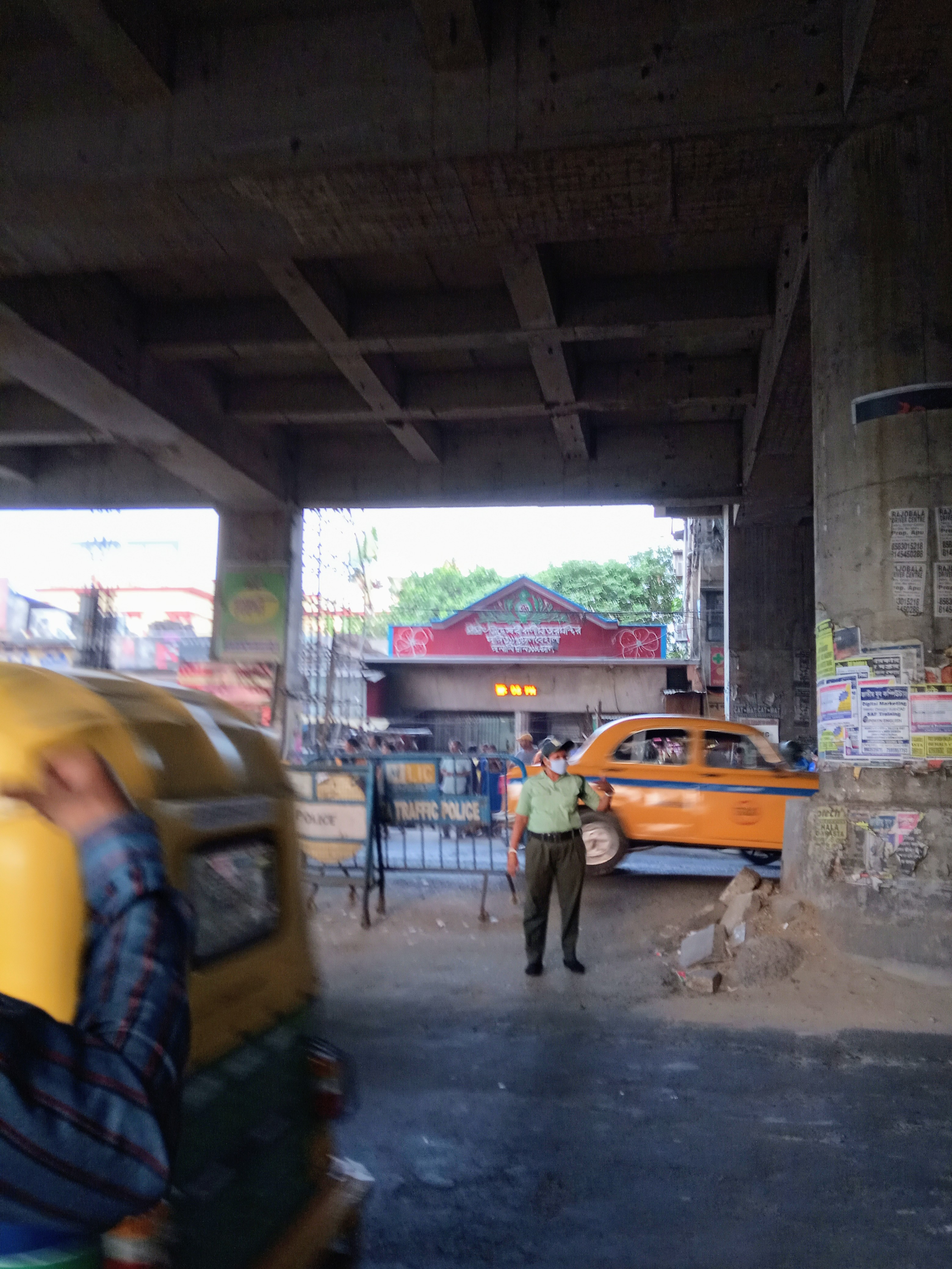 This is the photo of the famous Siddeswari Temple of Behala located at Diamond Harbour Road. This temple is more than 120 years old.